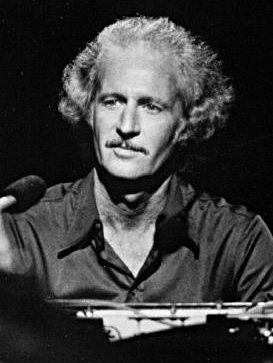 Publicity photo of Mose Allison